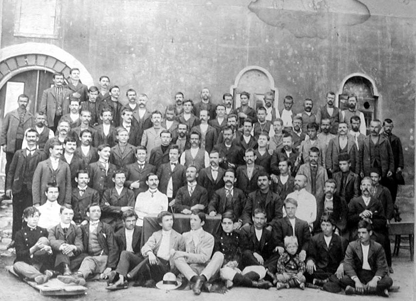 Members of the Bulgarian Constitutional Clubs in Gorna Dzhumaya.